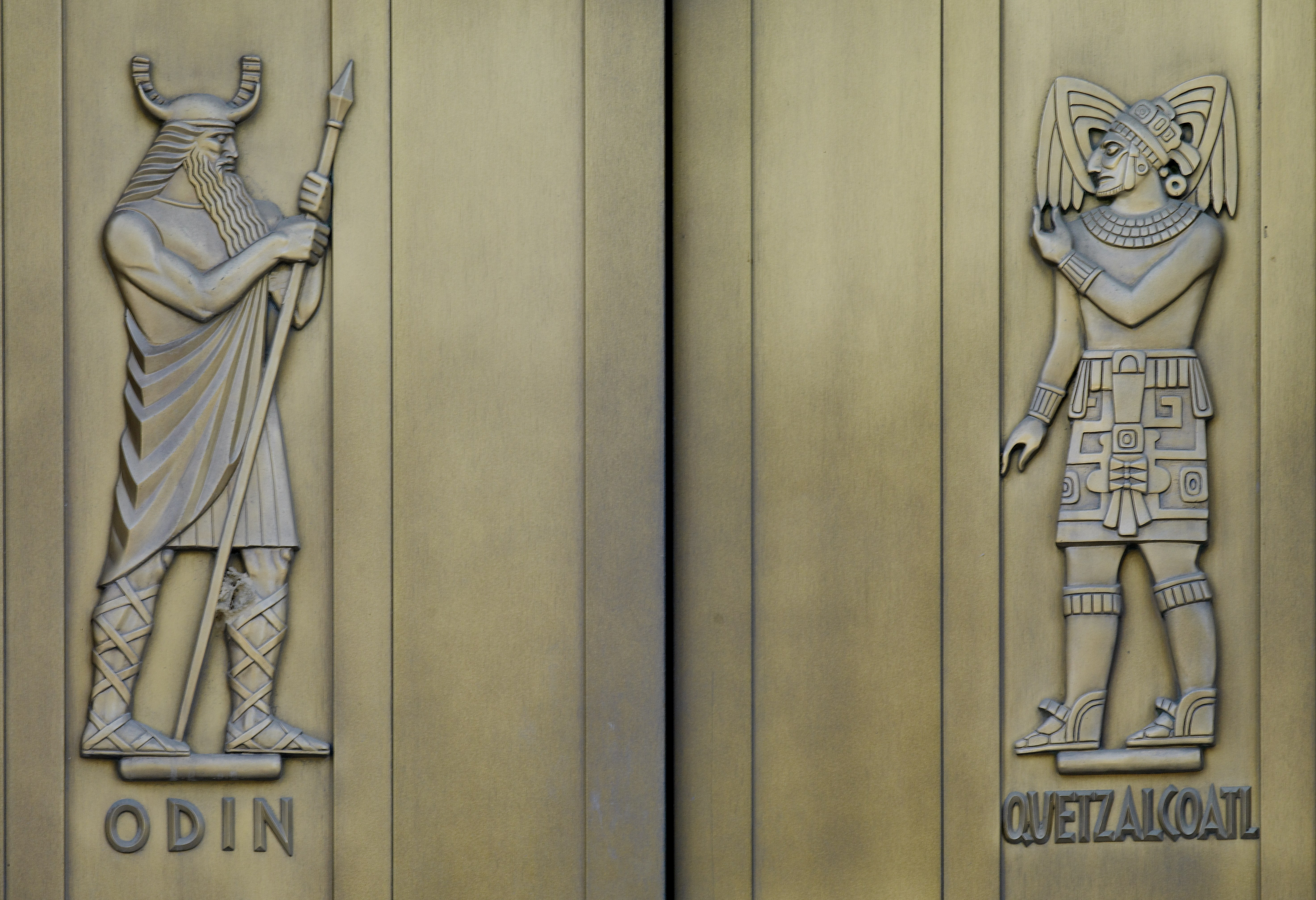 Odin and Quetzalcoatl, sculpted bronze figures by Lee Lawrie. Door detail, east entrance, Library of Congress John Adams Building, Washington, D.C.